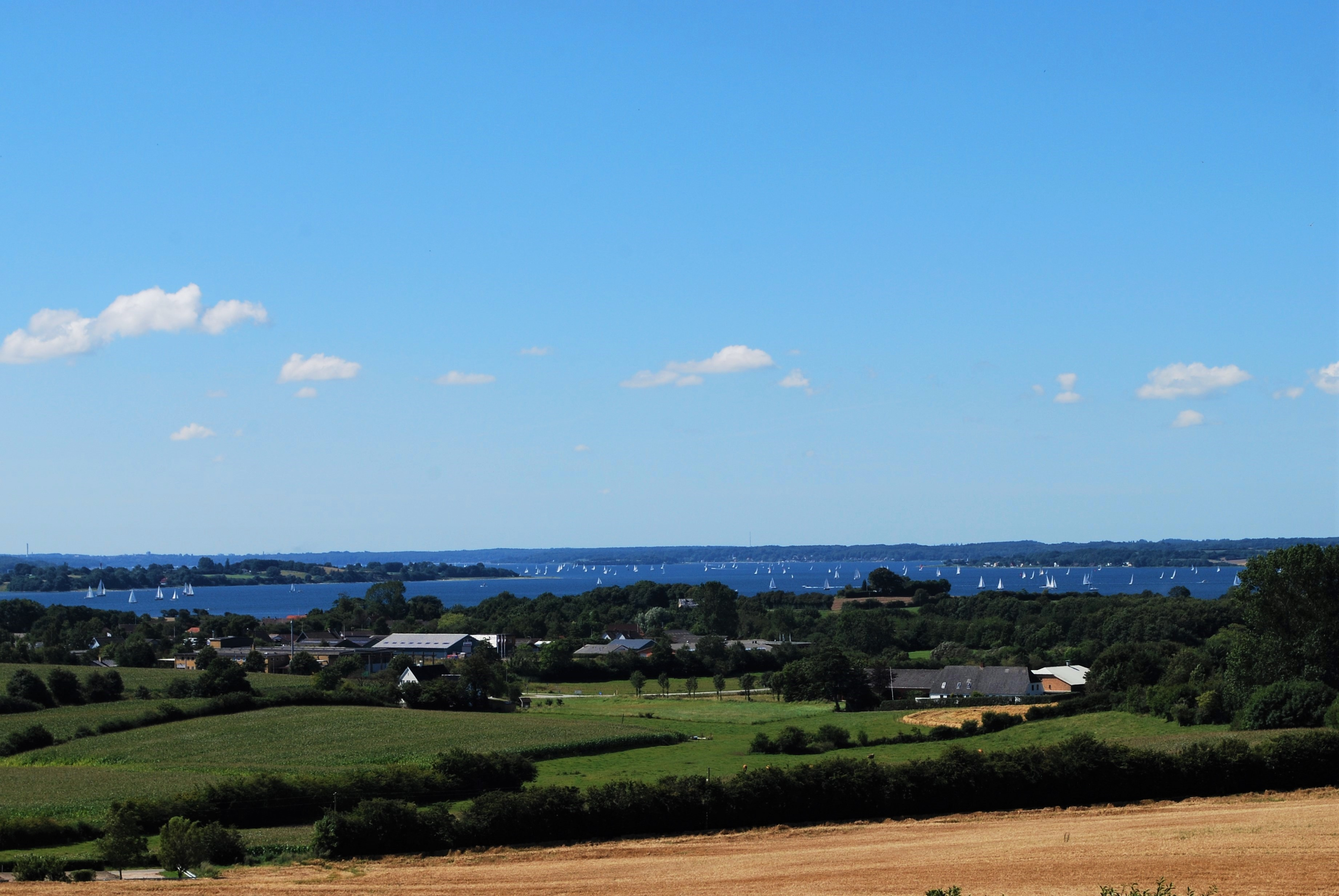 Flensborg Firth - seen from Smøl Vold - Broager - Denmark.